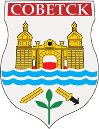 Sovetsk (Kaliningrad oblast), coat of arms